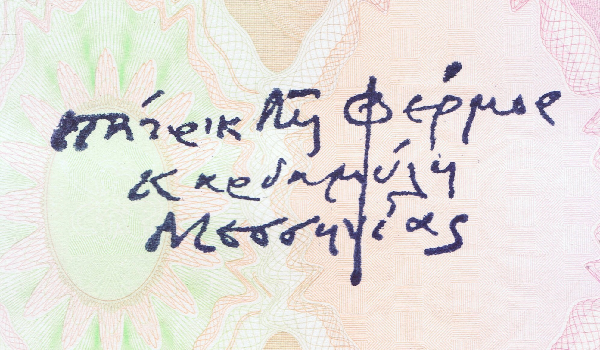 My scan of my impression (R. de SalisRodolph (talk) 10:10, 27 May 2014 (UTC)) into my passport of a manifestation of Patrick Michael Leigh Fermor's Greek signature and address manuscript stamp.